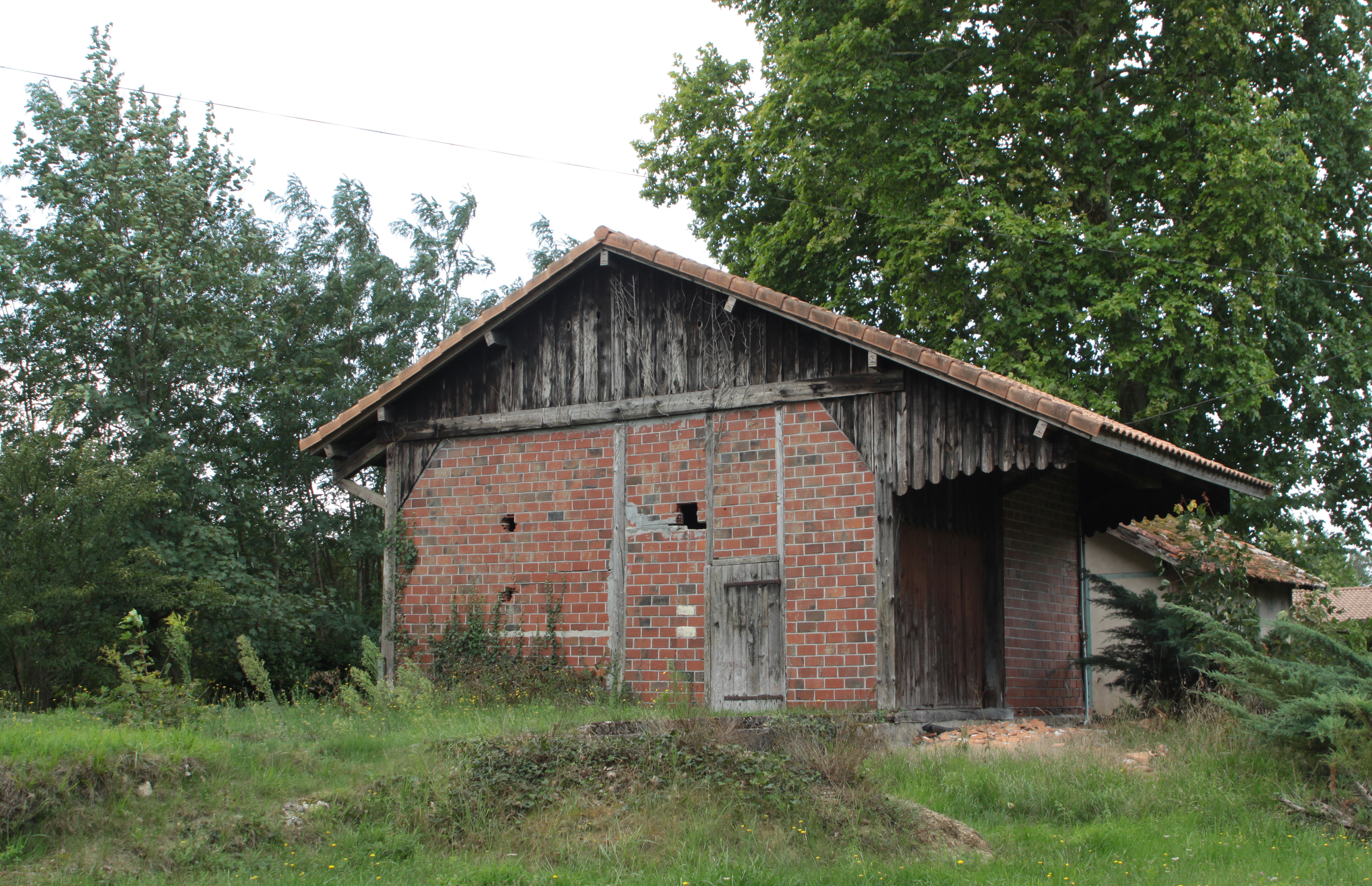 Former station at Lencouacq-Bourg